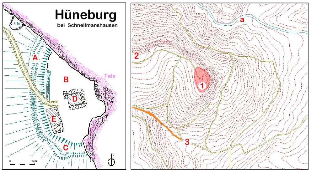 Map of the Hueneburg on mount Heldrastein